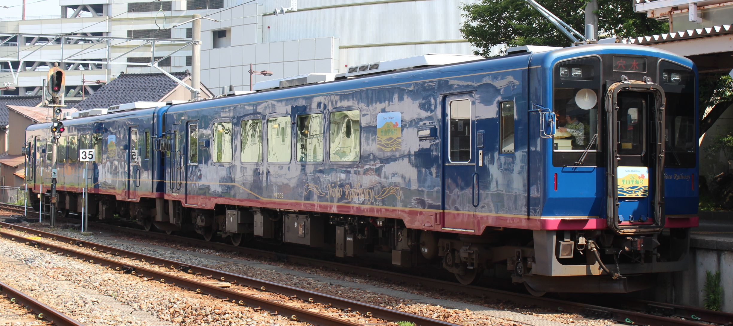 A pair of Noto Railway NT300 series DMU cars at Nano Station